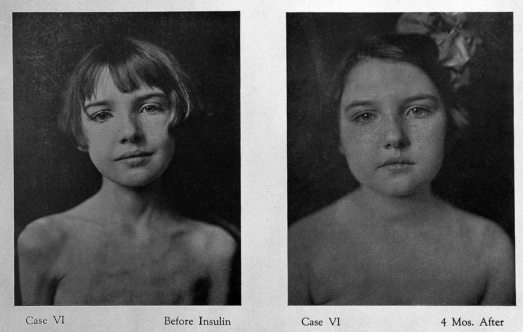 Photograph of Case VI: Young girl before and after Insulin treatment. General Collections Keywords: Therapeutics; metabolic; journal; after; Research; Insulin; TREATMENT; cases; before